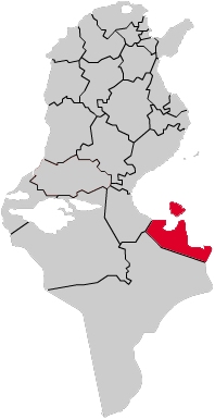 Map of Tunisia with highlighted Medenine Governorate